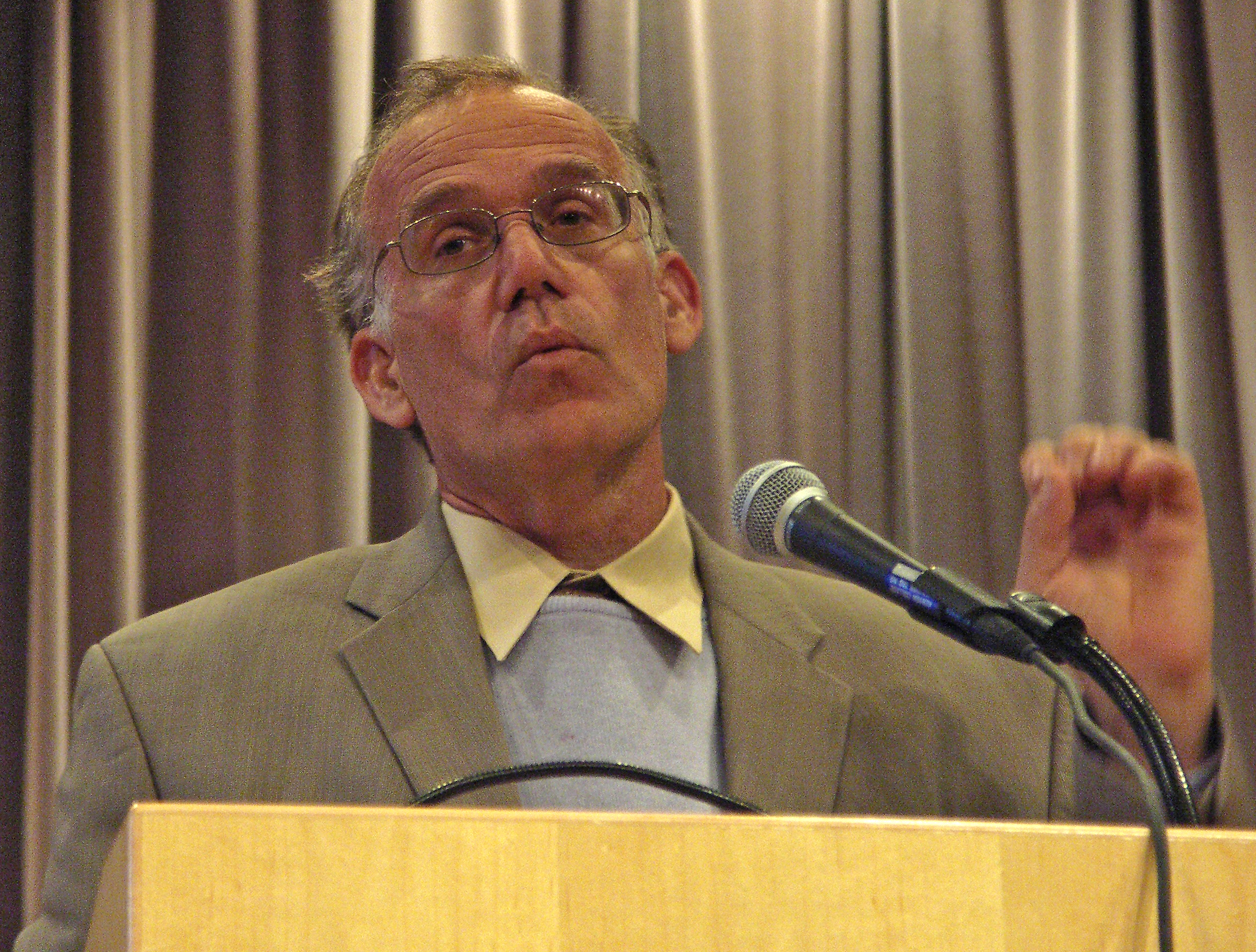 Victor Davis Hanson Picture by Chuck Grimmett at a May 2005 lecture at Kenyon College.